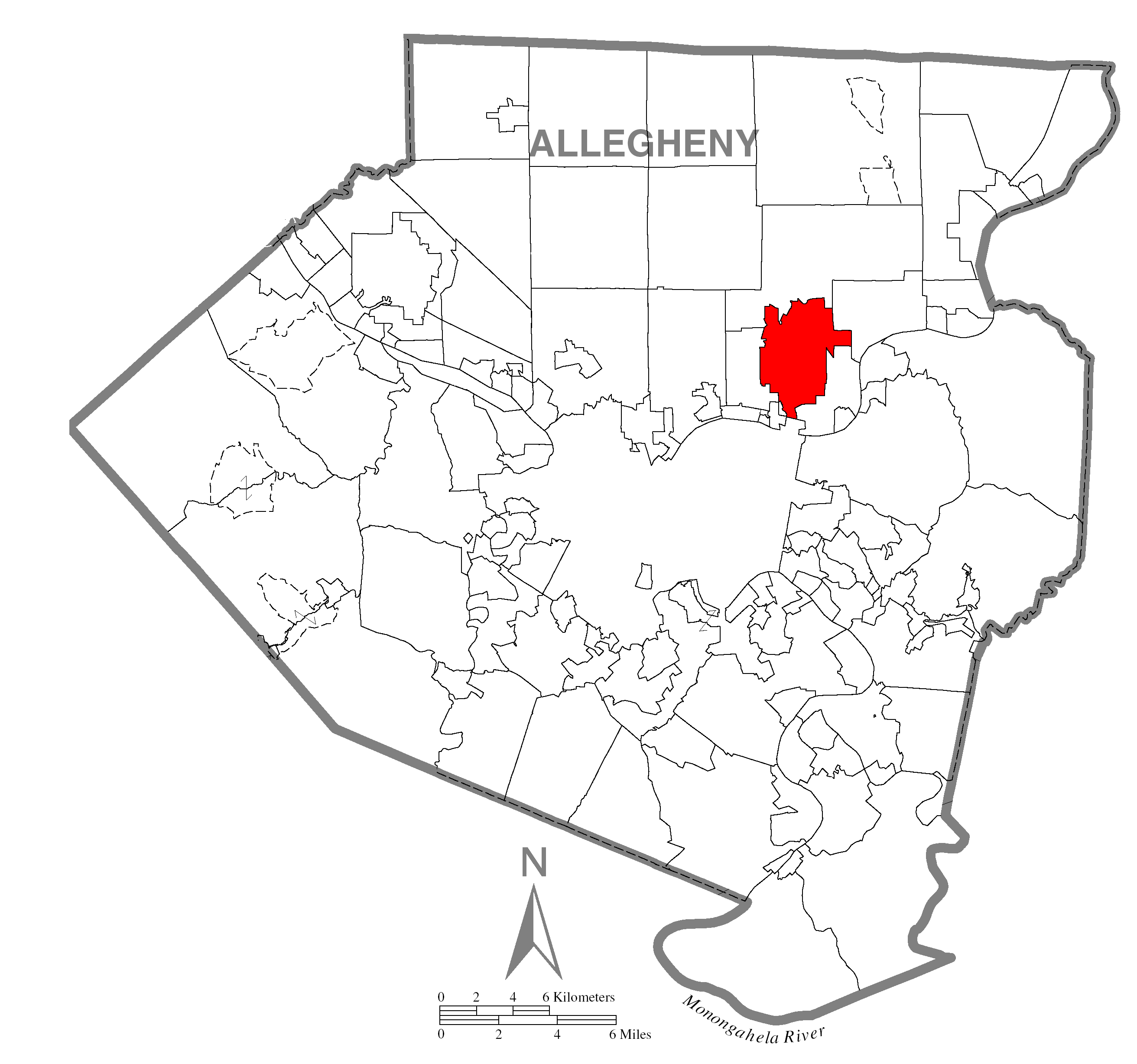 A map of Allegheny County showing Fox Chapel, Pennsylvania (alternate) highlighted on the map.